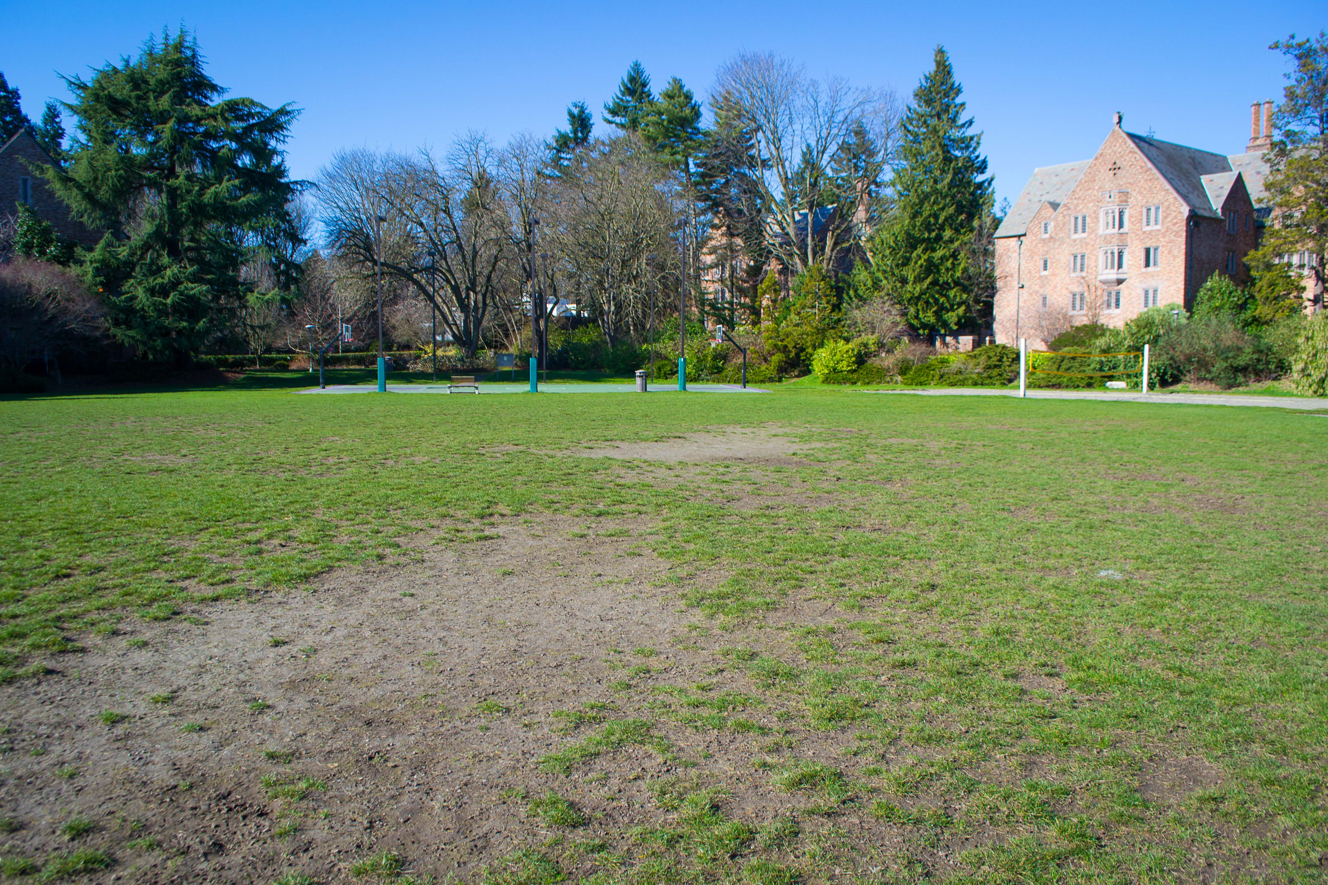 Denny Field, University of Washington